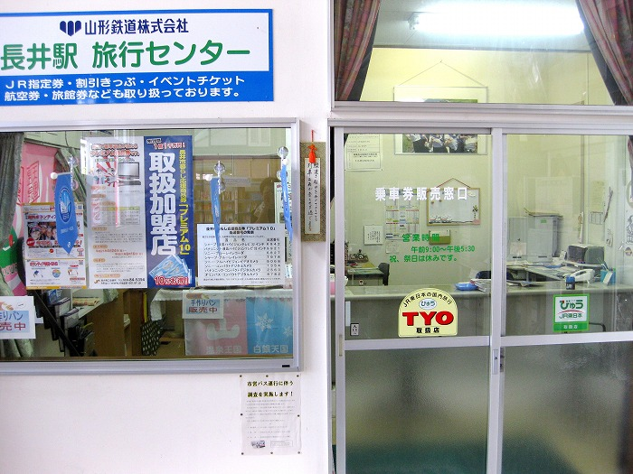 Nagai Station ticket office